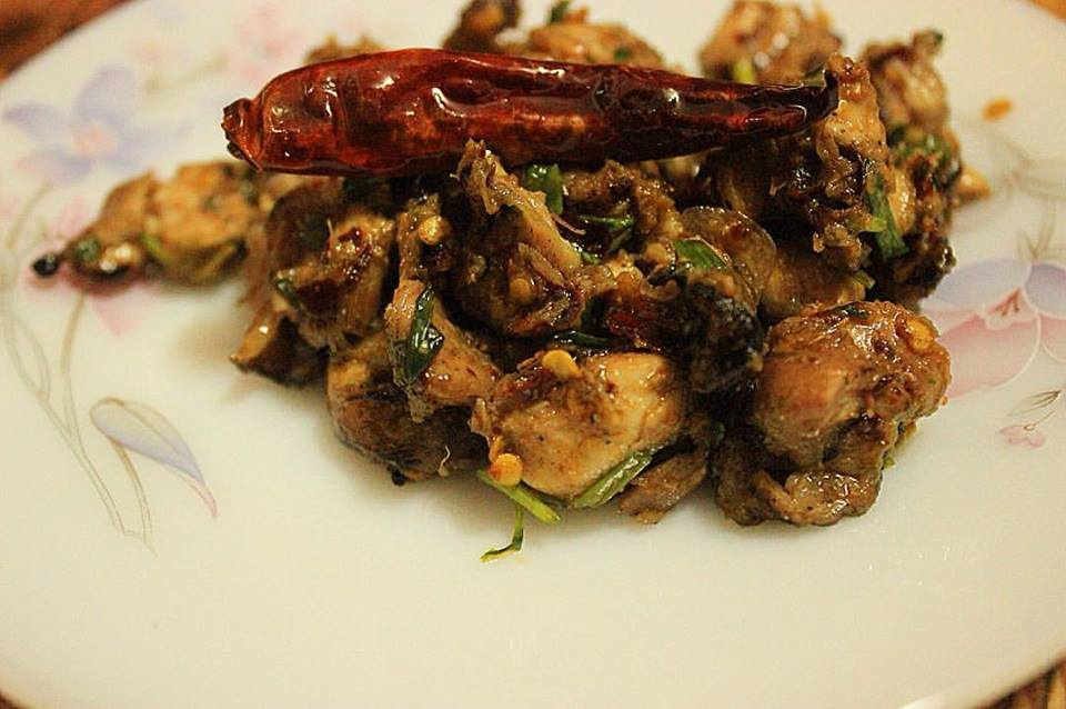 A traditional Newari Cuisine of Nepal.